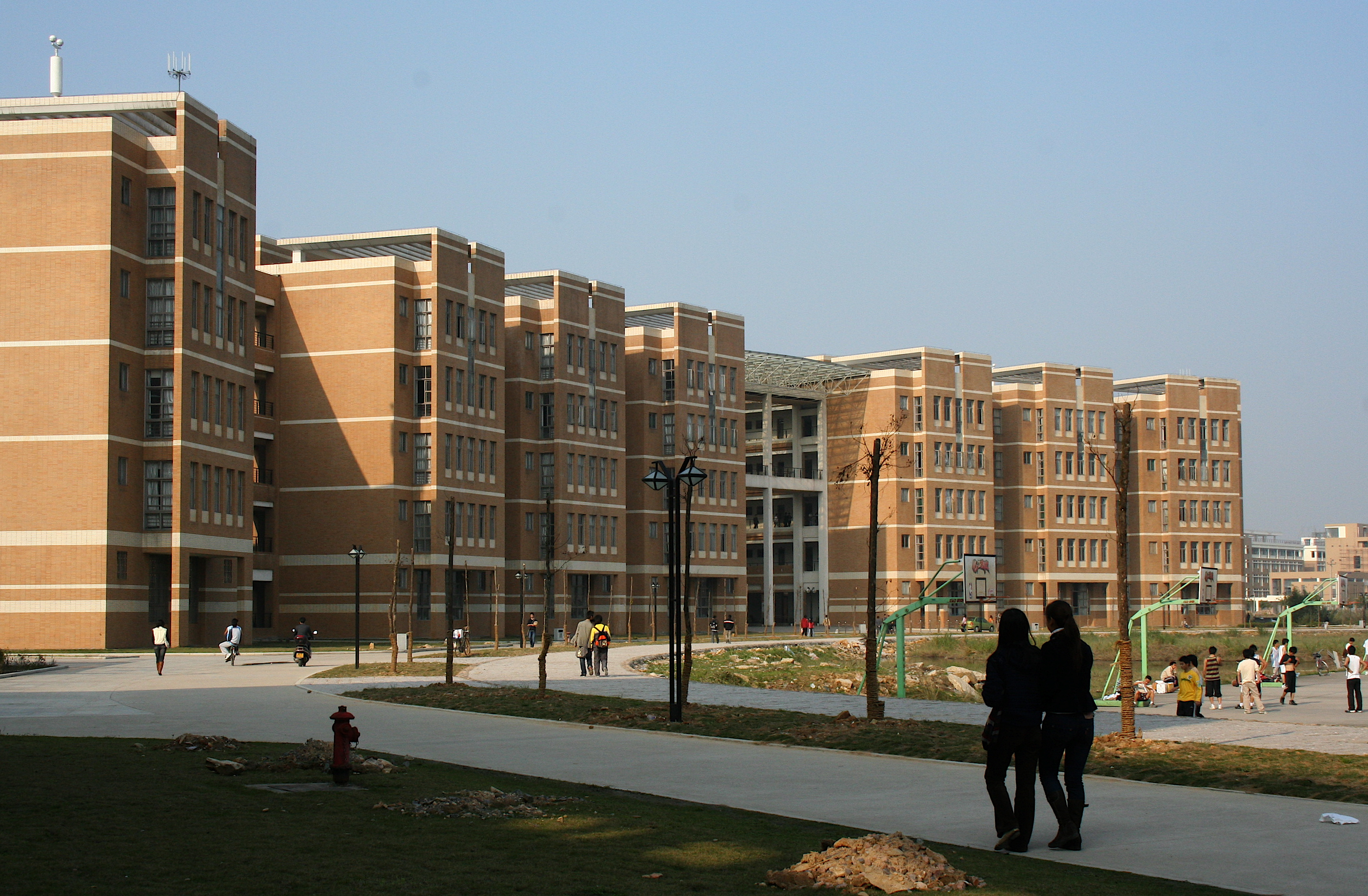 Fuzhou, China